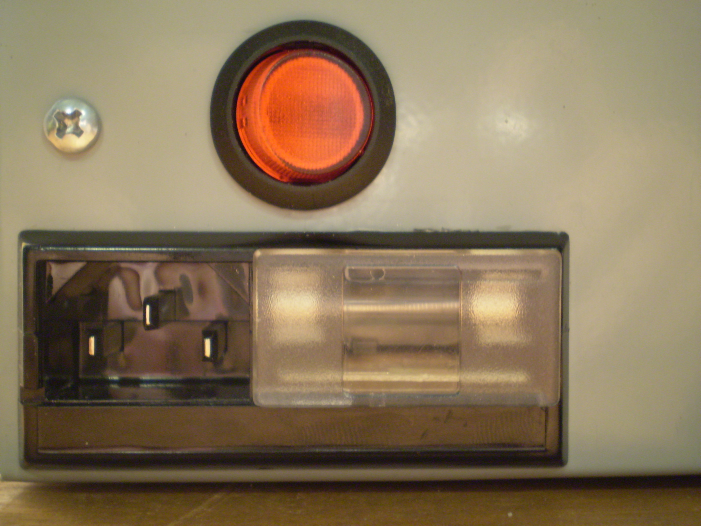 A close-up view of the rear panel of a device that I constructed for an electrical engineering class, showing the power entry module and power switch.